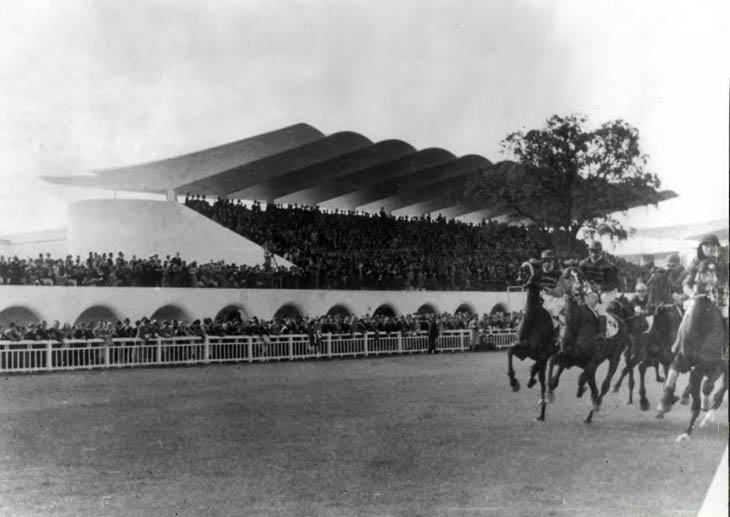 Martín Domínguez Esteban_Hipódromo de la Zarzuela Arniches, Domínguez y Torroja